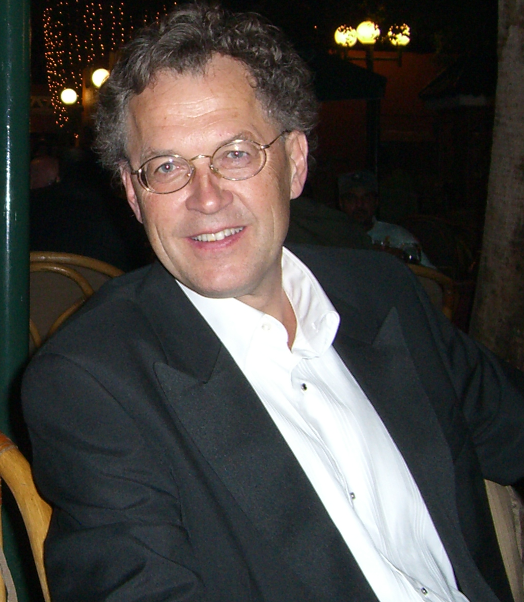 Picture of pianist Geir Botnen in Cairo, Egypt.